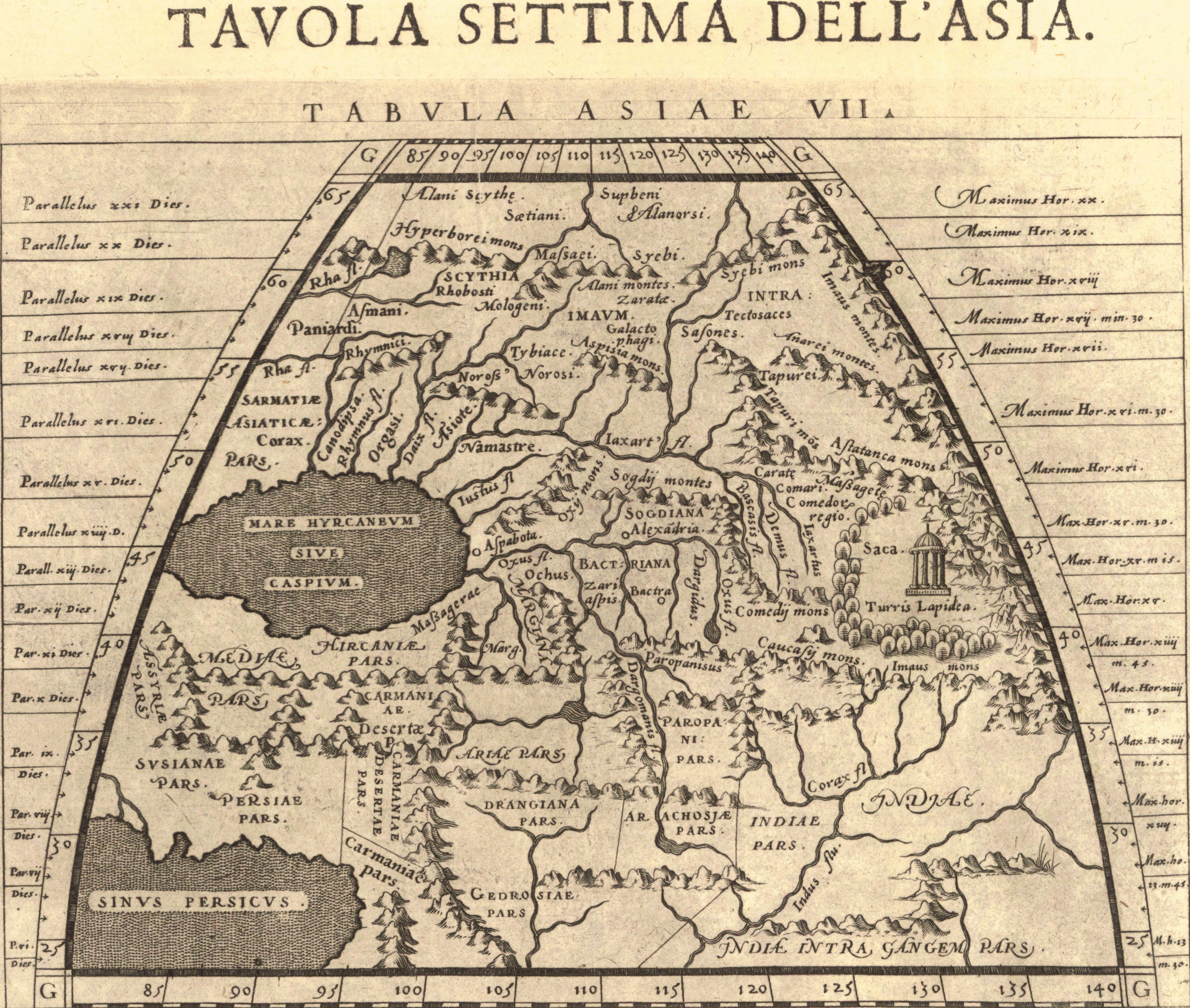 The 7th Asian Map from Ptolemy's Geography, using his second projection